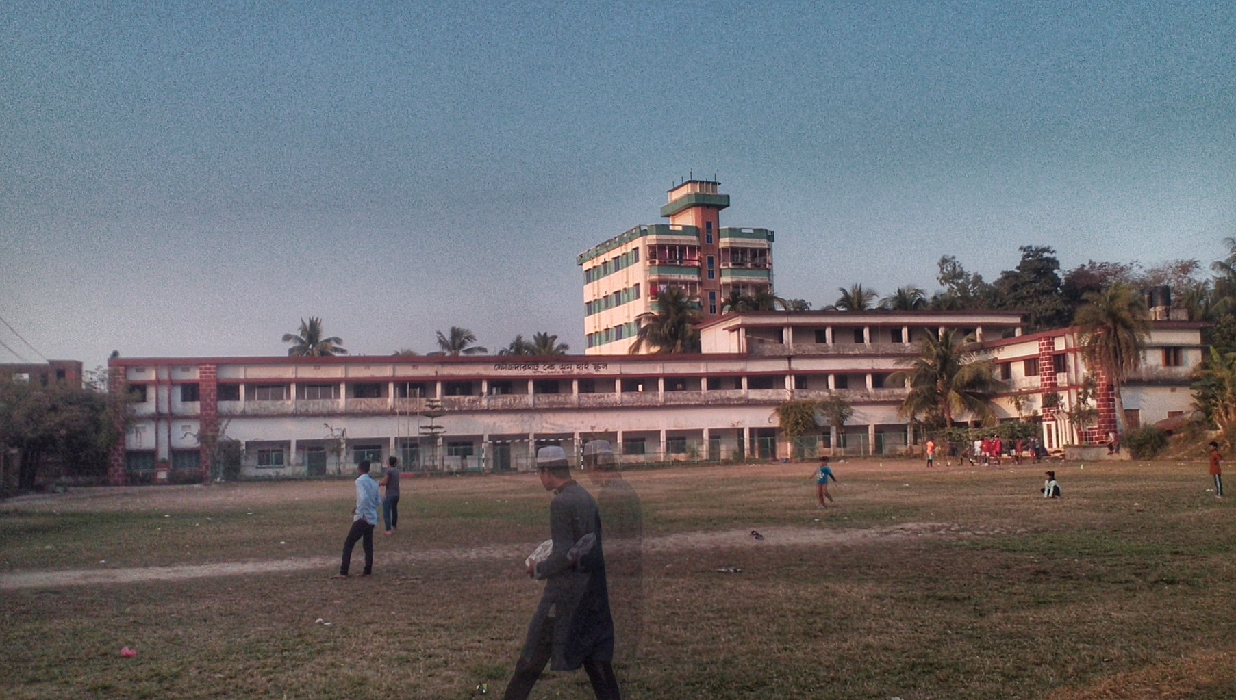 This is an image of Faujdarhat K.M. High School.